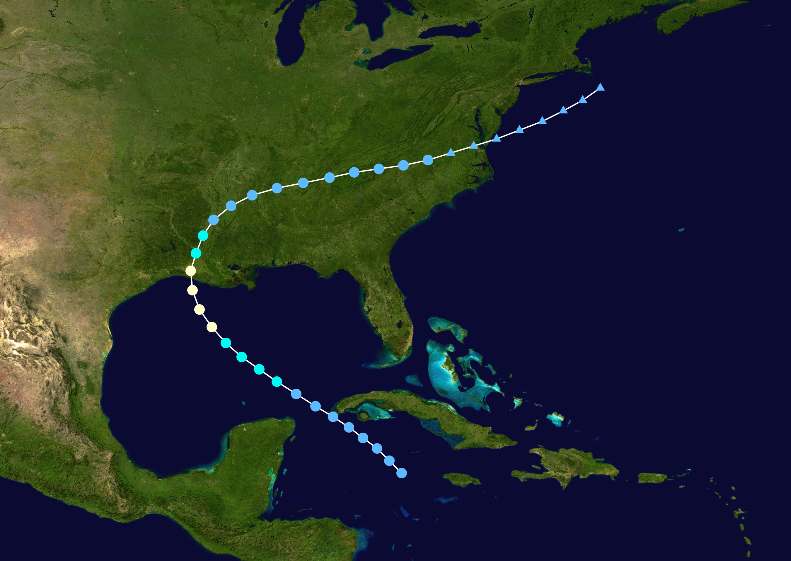 Hurricane Danny (1985) track. Uses the color scheme from the Saffir-Simpson Hurricane Scale.